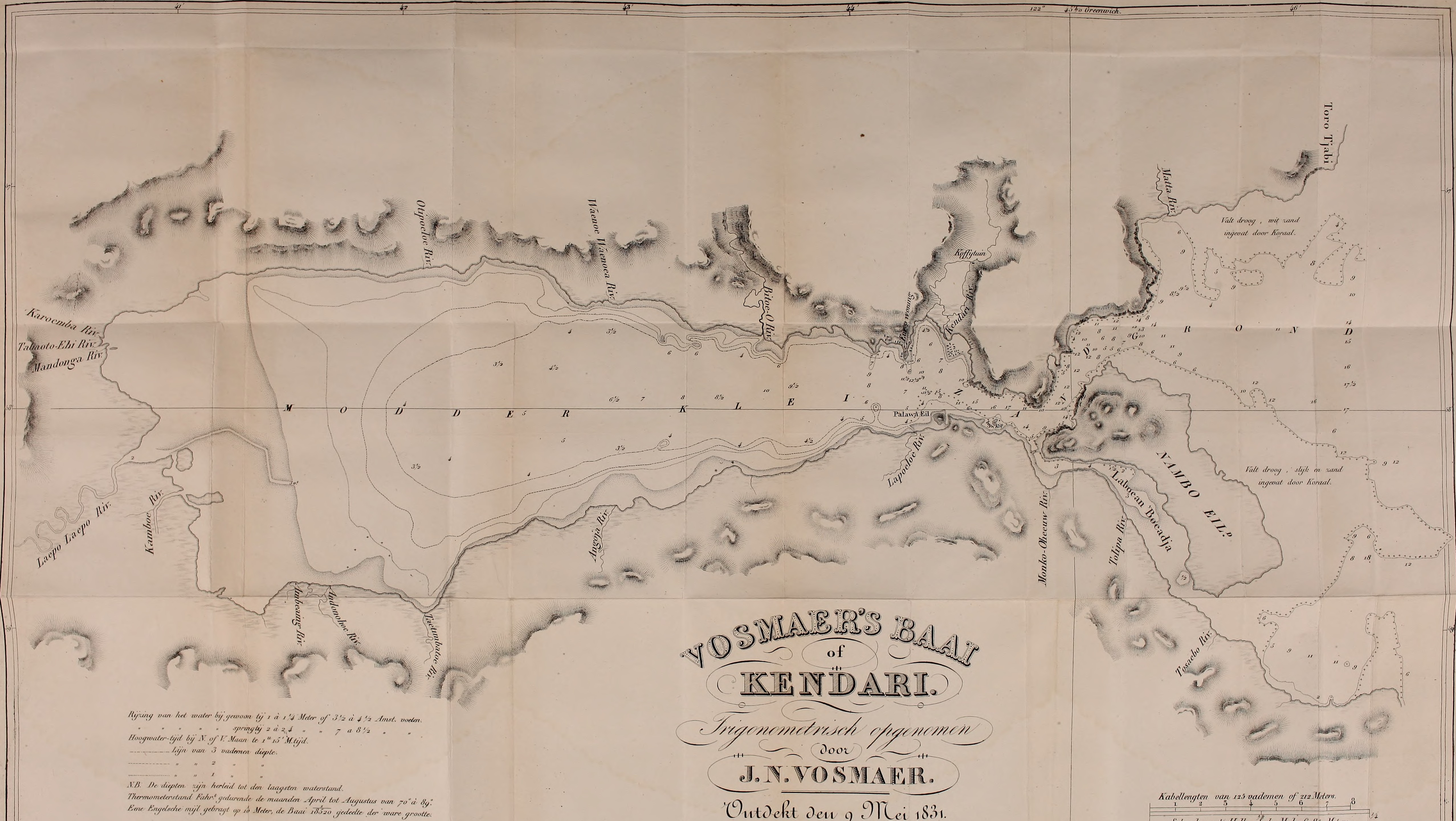 Title: Verhandelingen van het Bataviaasch Genootschap der Kunsten en Wetenschappen Year: 1779 (1770s) Authors: Bataviaasch Genootschap van Kunsten en Wetenschappen Subjects: Science Natural history Ethnology Malayan languages Publisher: Batavia : Egbert Heemen Text Appearing Before Image: s-tak gelegen. Alle bijdragen ter opbeuring vandenzelven, zullen nuttig en belangrijk kun-nen geacht worden, daar dezelve de weldadigehulpmiddelen zullen mede brengen, om hen opeene geschikte en welgevallige wijze, vele be-zigheden en gevolgelijk ook een genoegzaam le-vensonderhoud te verschaffen; en daardoor zalhun grootendeels de gelegenheid worden beno-men om zich, door lediggang en verveling, aanandere gedachten en aan eene oneerbare en los-bandige levenswijze over te geven. Ontegen-sprekelijk zal ter bereiking van dat heilzamedoel, de invloed van het Nederlandsch Gezag,op eene gepaste wijze aangewend, zoo dat daar-aan tevens bescherming verbonden zij, eene,voor hunne behoefte en begrippen behagelijke on- ( 184 ) ondersteuning kunnen aanbieden; zeer gunstigkunnen medewerken tot de bevordering derwelvaart van zoo vele onzer afgelegene bezit-tingen en tevens de verknochtheid van derzelverbewoners aan onze Regering, in de hoogstemate kunnen bevorderlijk zijn. n ATA VIA,20 JunfJ 1835. Text Appearing After Image: KB. De nu£avtand /;,/„■ ,,.;/,„„„/, ,/e „,,„„„/„, ./,„.,/ /,,/ Auyuetm „„„ .„-,; g -/■:„« /:,,,,,/.«■/„ myljeirayt w Sdwal-oan ty.JfoïïandscfuMulp/i/l-h Veten 7h£agm /„,/■:/:„,„ r/„ ■//„■/,. Jf/ufrre/ant. fy f.. ,f,r, IhJdr/ OVER HET GESLICHT tüpeia; DOOR P. W. KORTHALS, LID DER COMMISSIE VOOR HET NATUURKUNDIGONDERZOEK IN INDlë. OVER HET GESLACHT TUPEIA. J$ij de beschrijving: der door CHAMisso, opde Romanzoffsche expeditie verzamelde Loran-thaceae (Linnaea 1828 F\ 3. pag. 203.), maakteons deze en zijn medewerker sch:lechtenda:lopmerkzaam, dat de Viscum aniarcticum forsterniet tot dit geslacht behoorde, maar nader aanLoranthus Europa